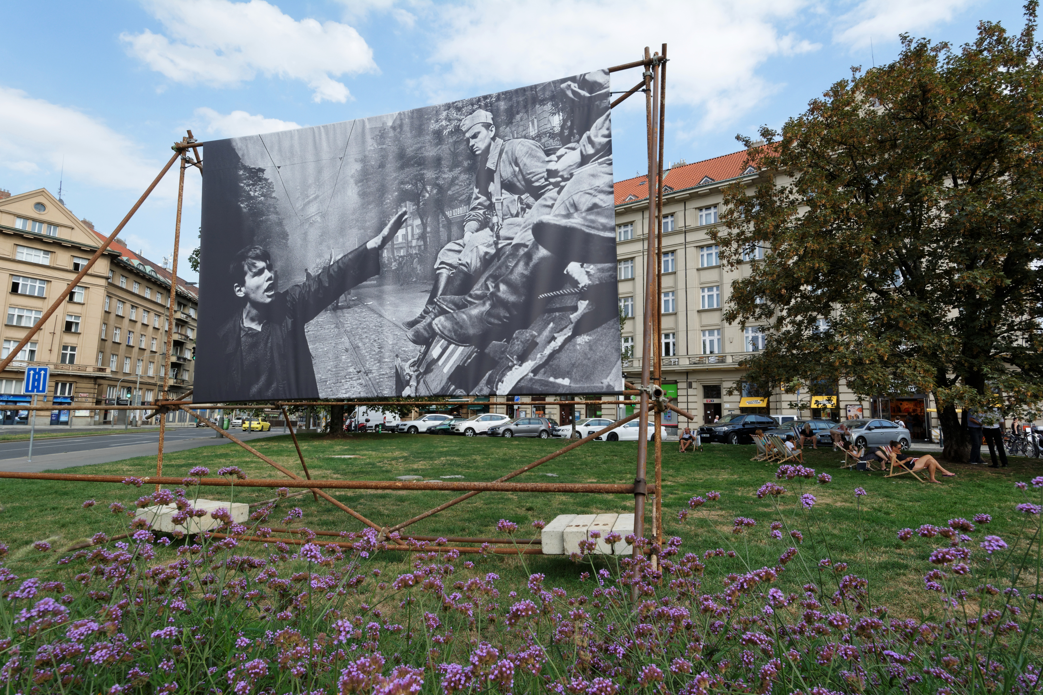 Attention banner to the exhibition KOUDELKA: INVASION 1968 in National Gallery in Prague. Prague, Vítězné náměstí.